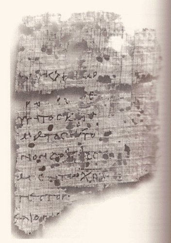 Papyrus 92; Eph 1;11-13